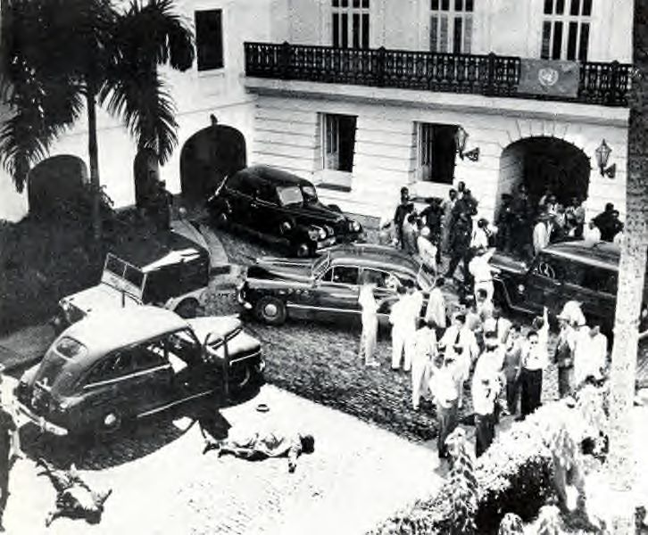 The attack of La Fortaleza by Puerto Rican Nationalists in San Juan 1950.